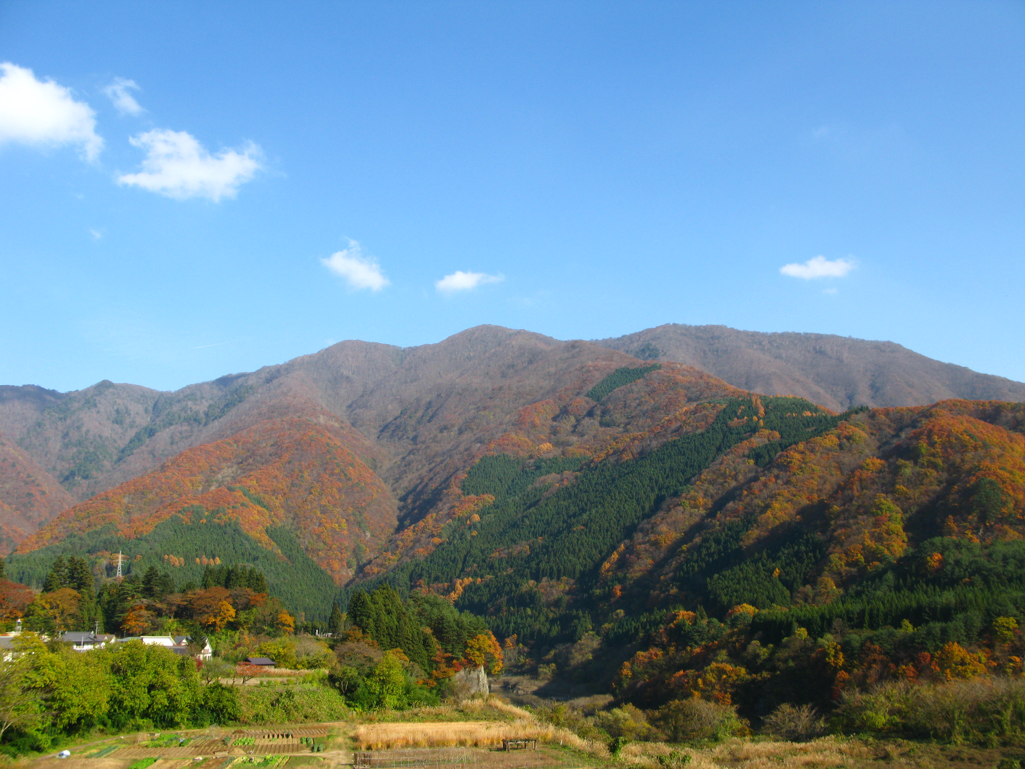 Mt.Otodake, Fukushima pref., Japan